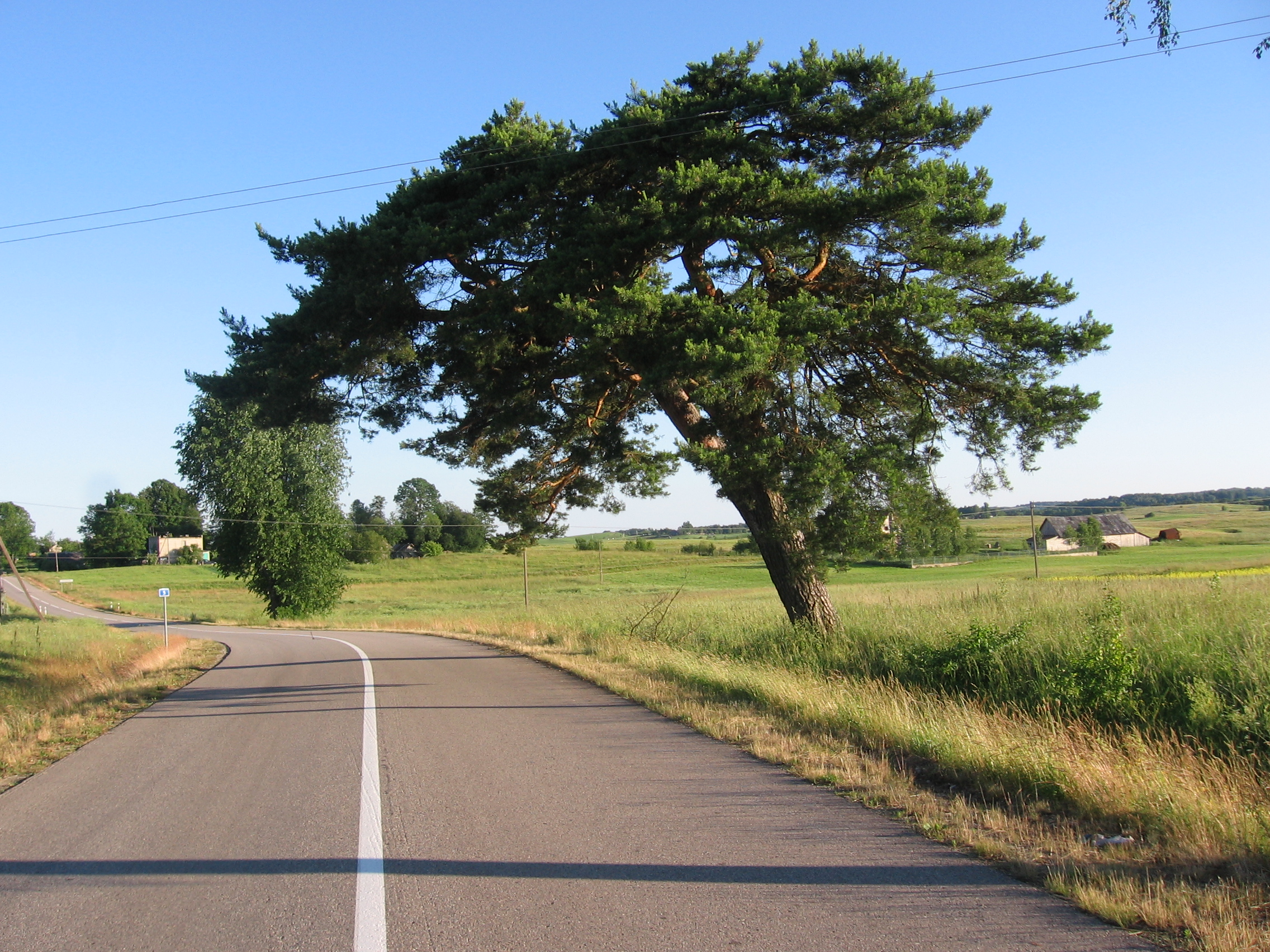 National Monuments of Lithuania in Žvirgždėnai, Alytus region.